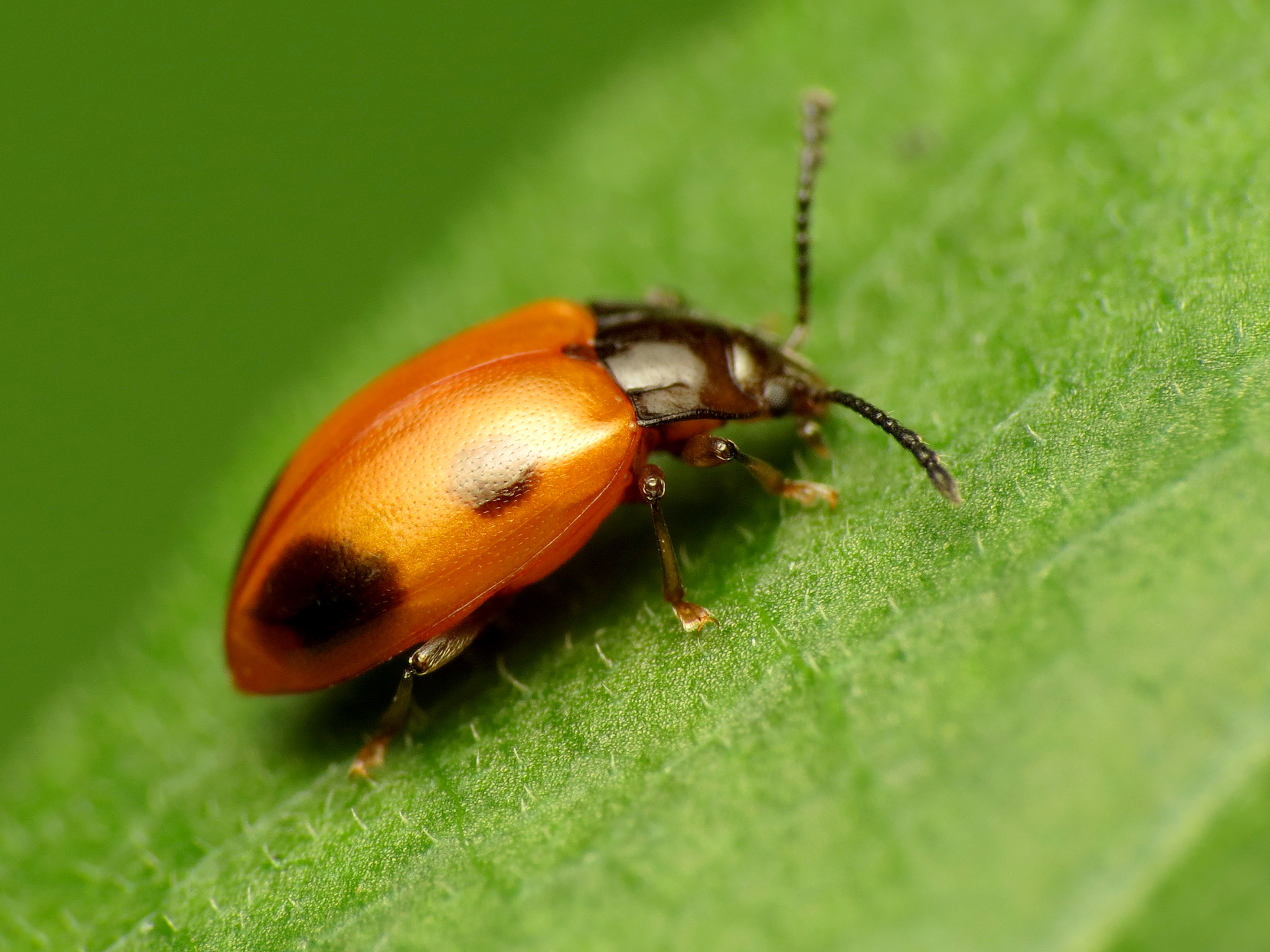 Endomychus biguttatus. Rock Creek Park, Washington, DC, USA.